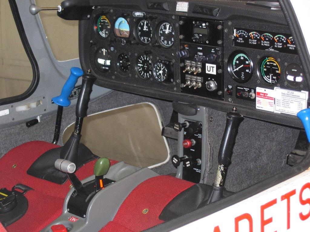 Grob Vigilant T1 cockpit. Author: Steven Mason